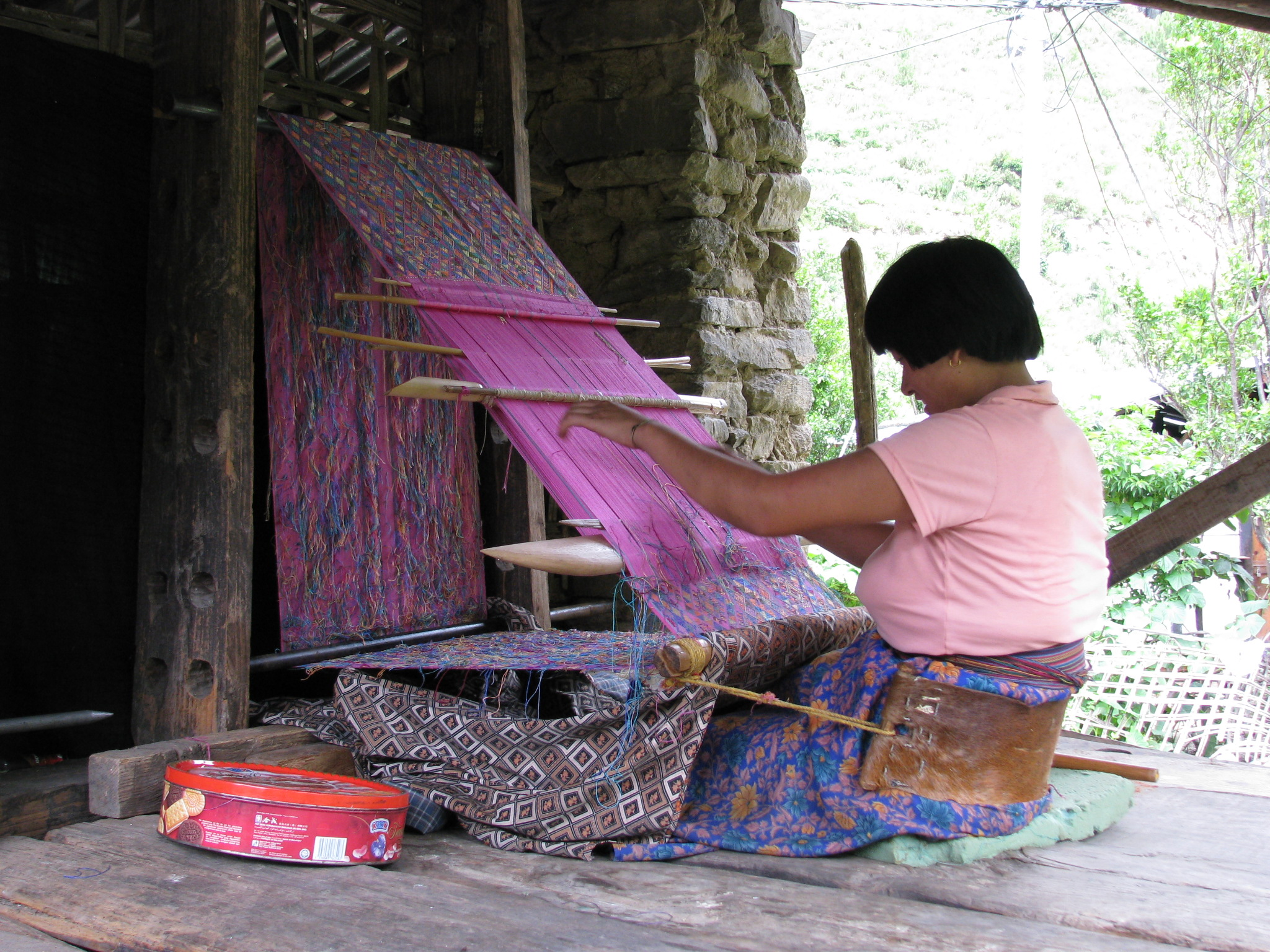 Handloom creation.